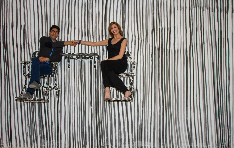 Moroccan Actress Latifa Ahrar and a member of the Biennale team interacting with art by Moroccan artist Hamid el Kanbouhi. Photo: Mahdi Messouli